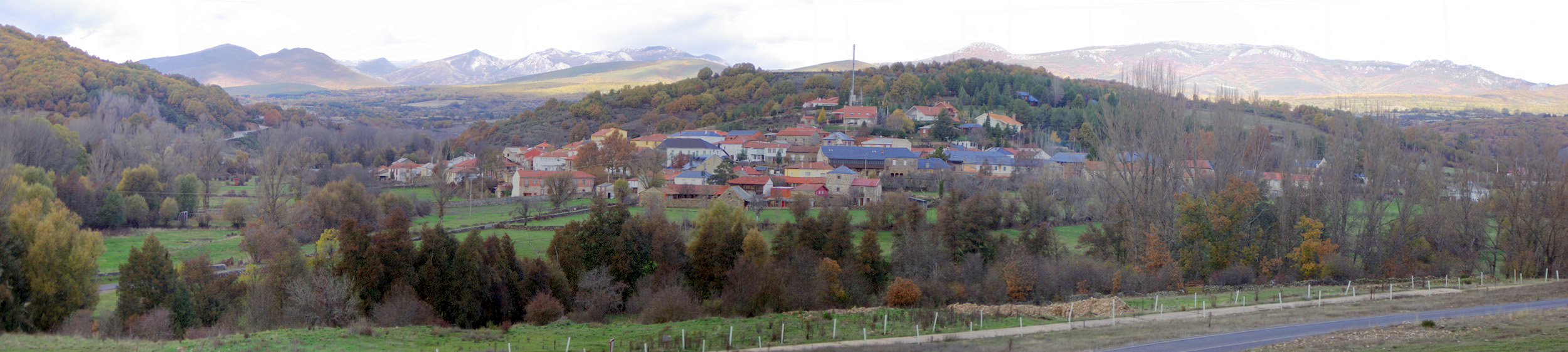 Riello from South (León, Spain)